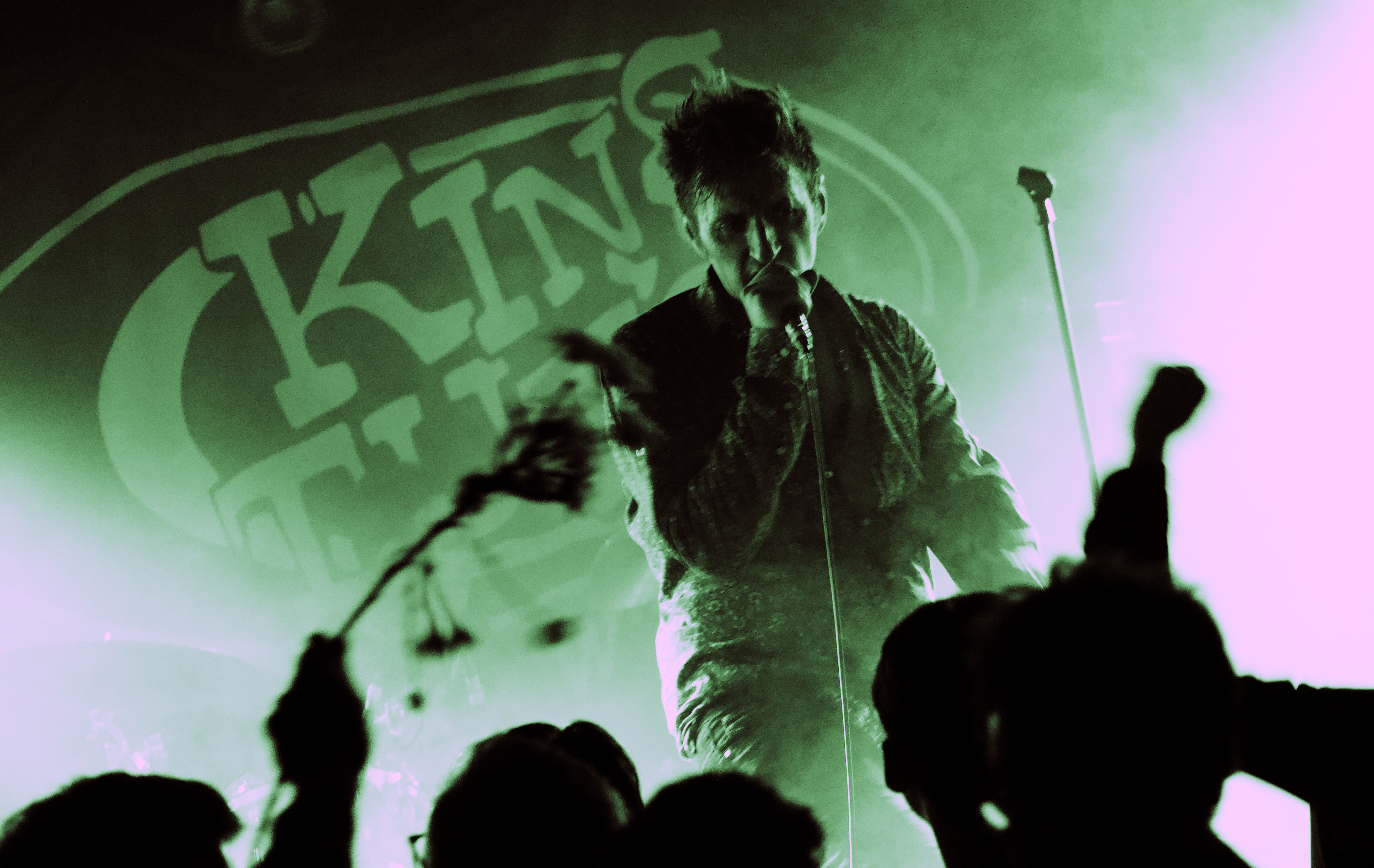 Morrissey Indeed live at Glasgow's King Tut's Wah Wah Hut on 16 June 2018